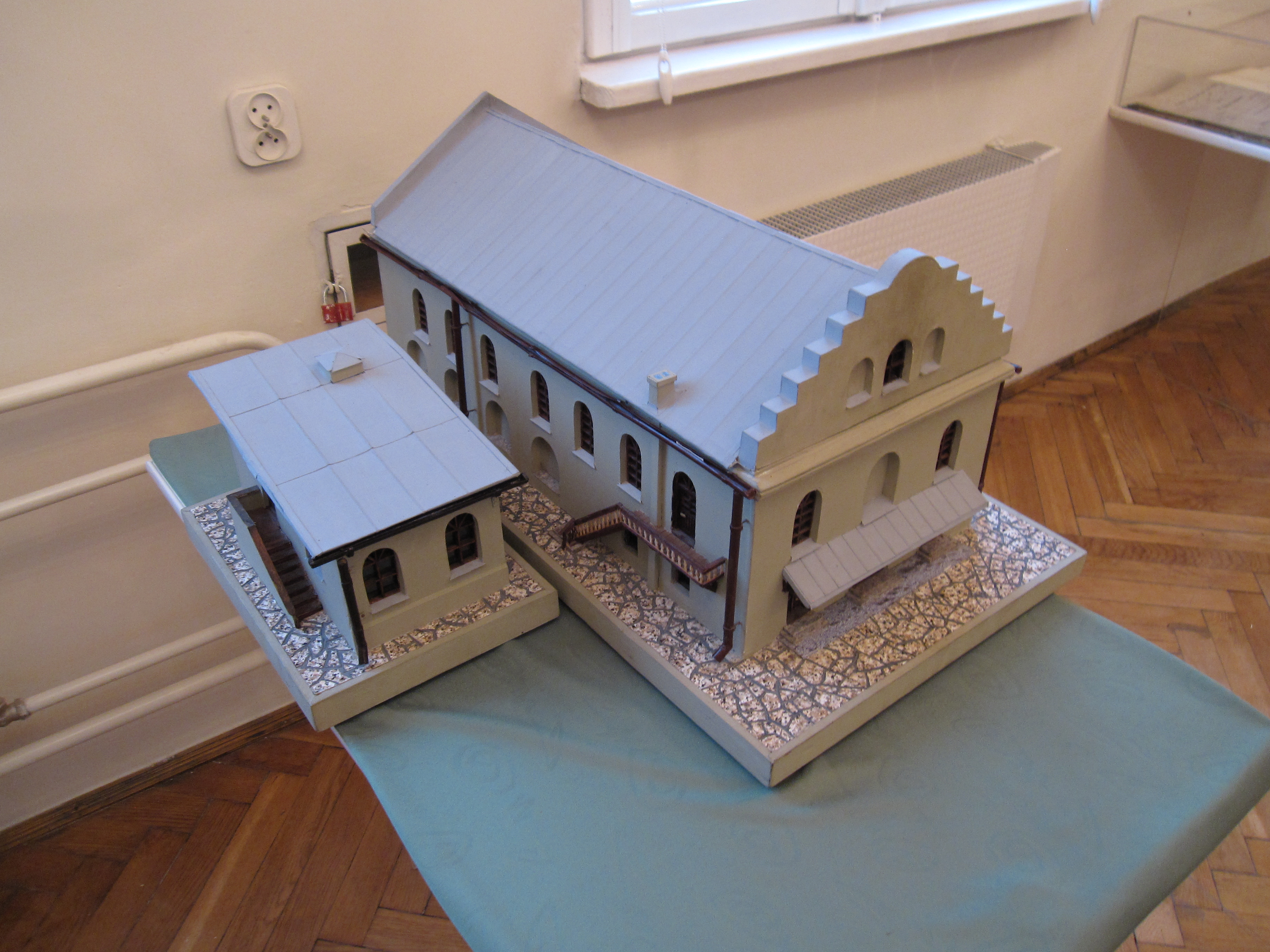 Museum in Chrzanów named in honour of Irena and Mieczysław Mazaraki.